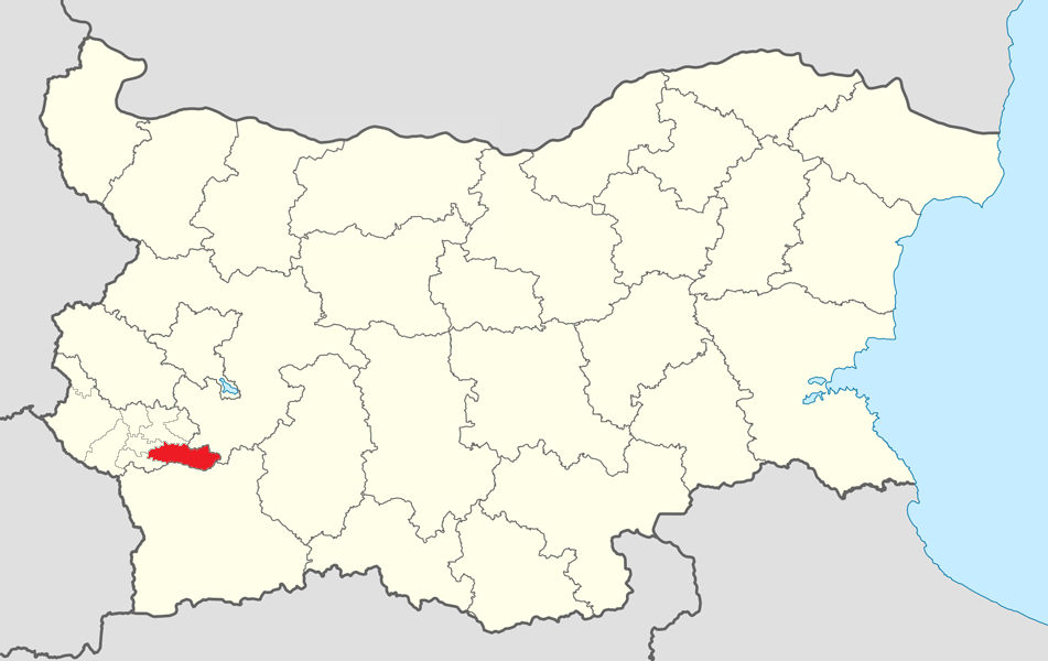 Location map of Rila Municipality within Bulgaria and Kyustendil province